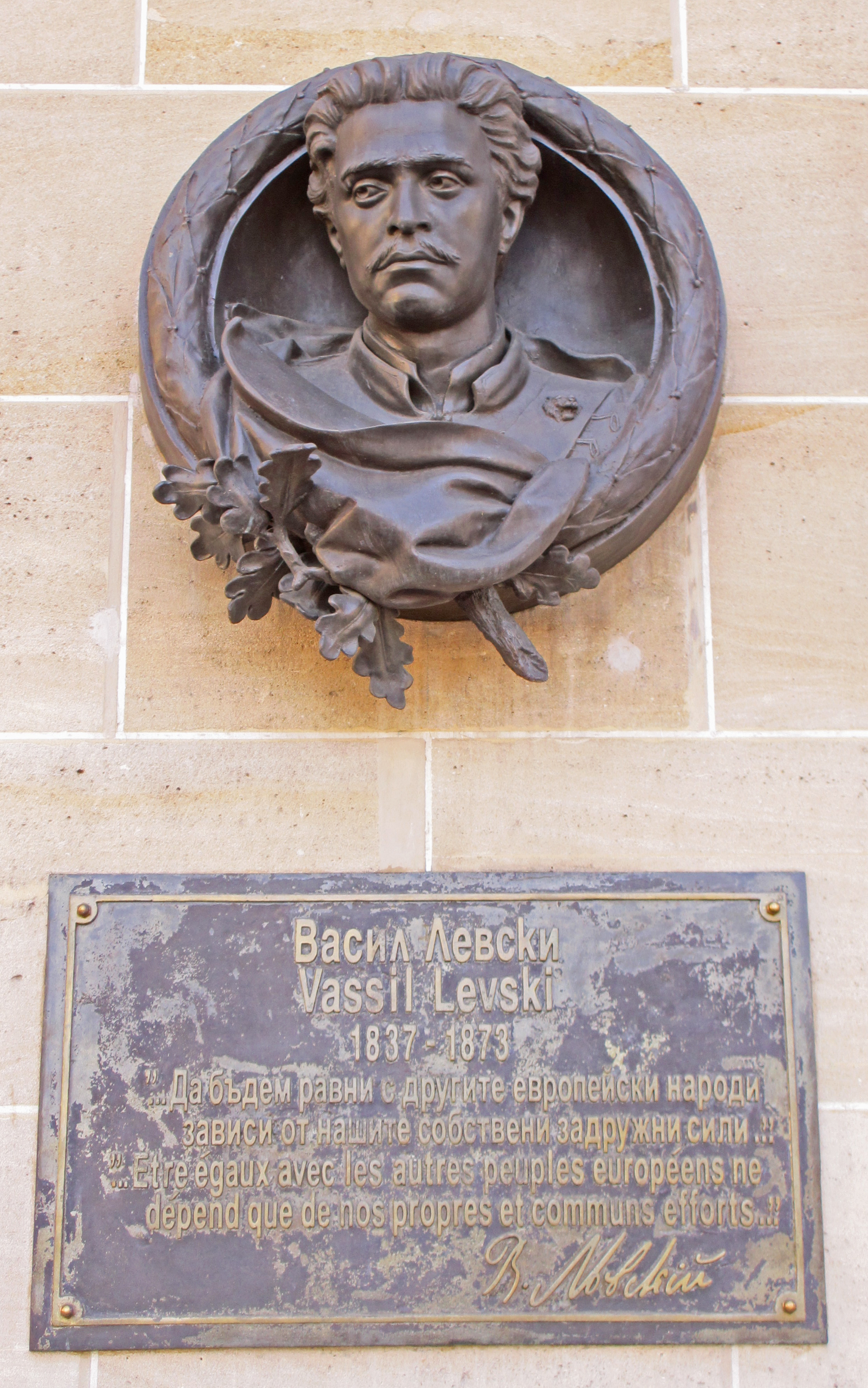 Read more about this Bulgarian revolutionary here